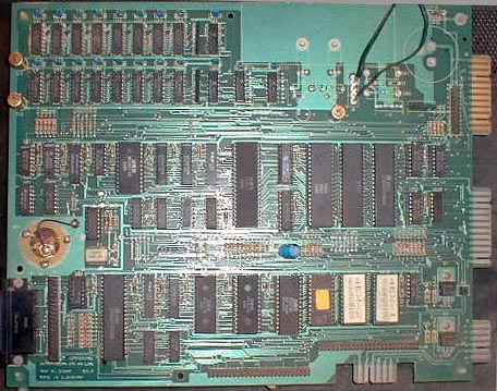 CBM 8296 motherboard